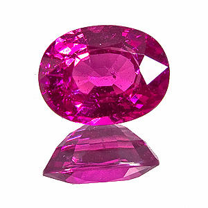 Sapphire pink oval 1.90cts